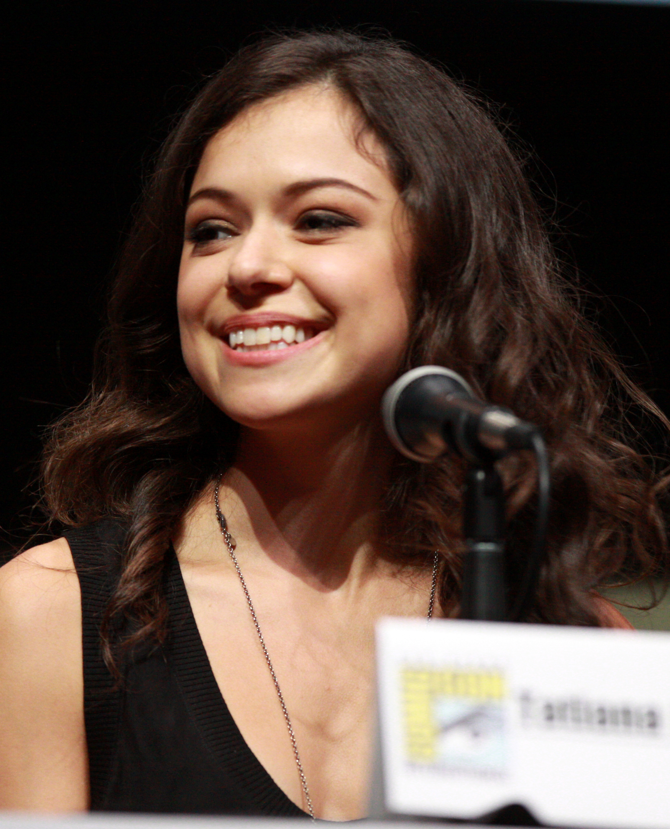 Tatiana Maslany at the 2013 San Diego Comic Con International in San Diego, California.